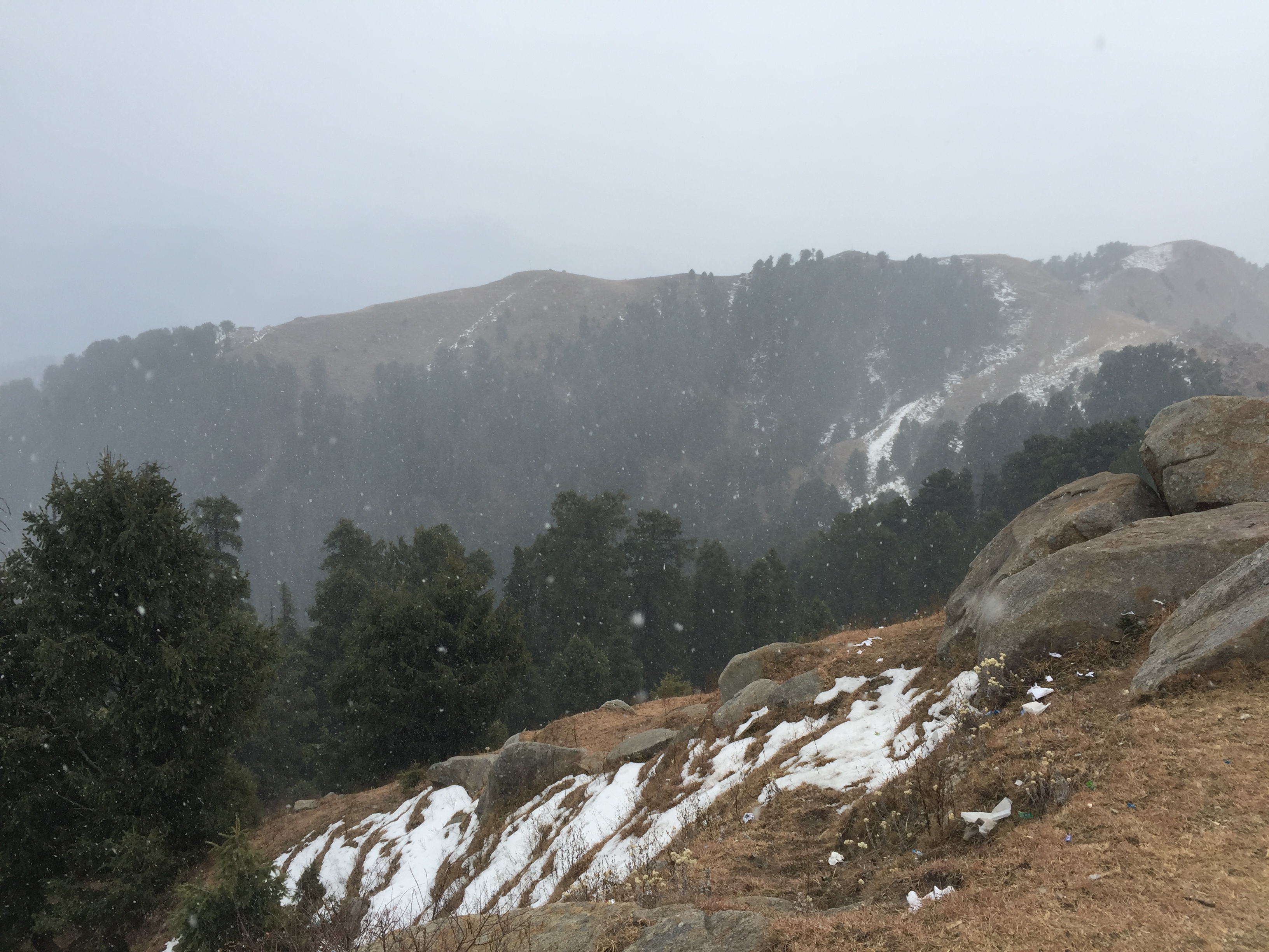 Dainkund peak(10k feet) in Dalhousie,India